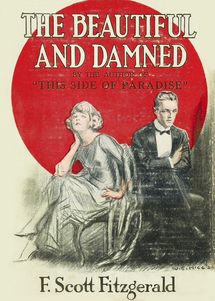 This is the artwork on the first edition dustcover of The Beautiful and Damned, published in 1922, with the characters of Anthony and Gloria drawn to resemble Fitzgerald and Zelda.